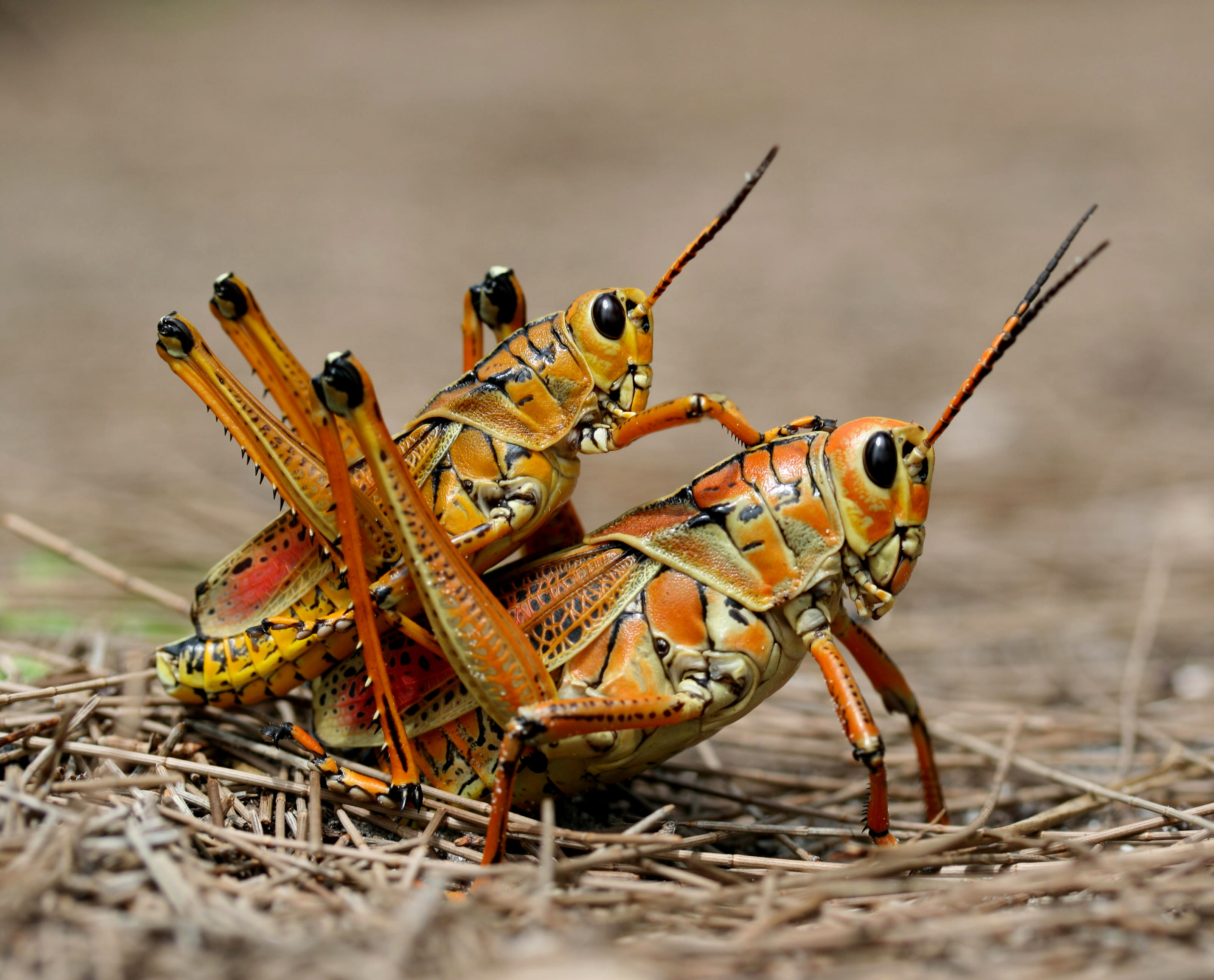 Eastern Lubber Grasshopper pair; female (larger) is laying eggs, with male in attendance.